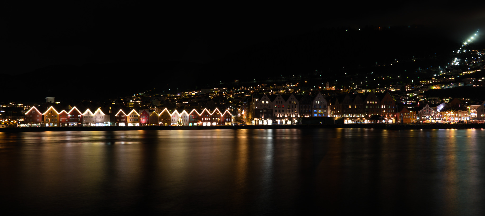 Norway Bergen Bryggen during nighttime